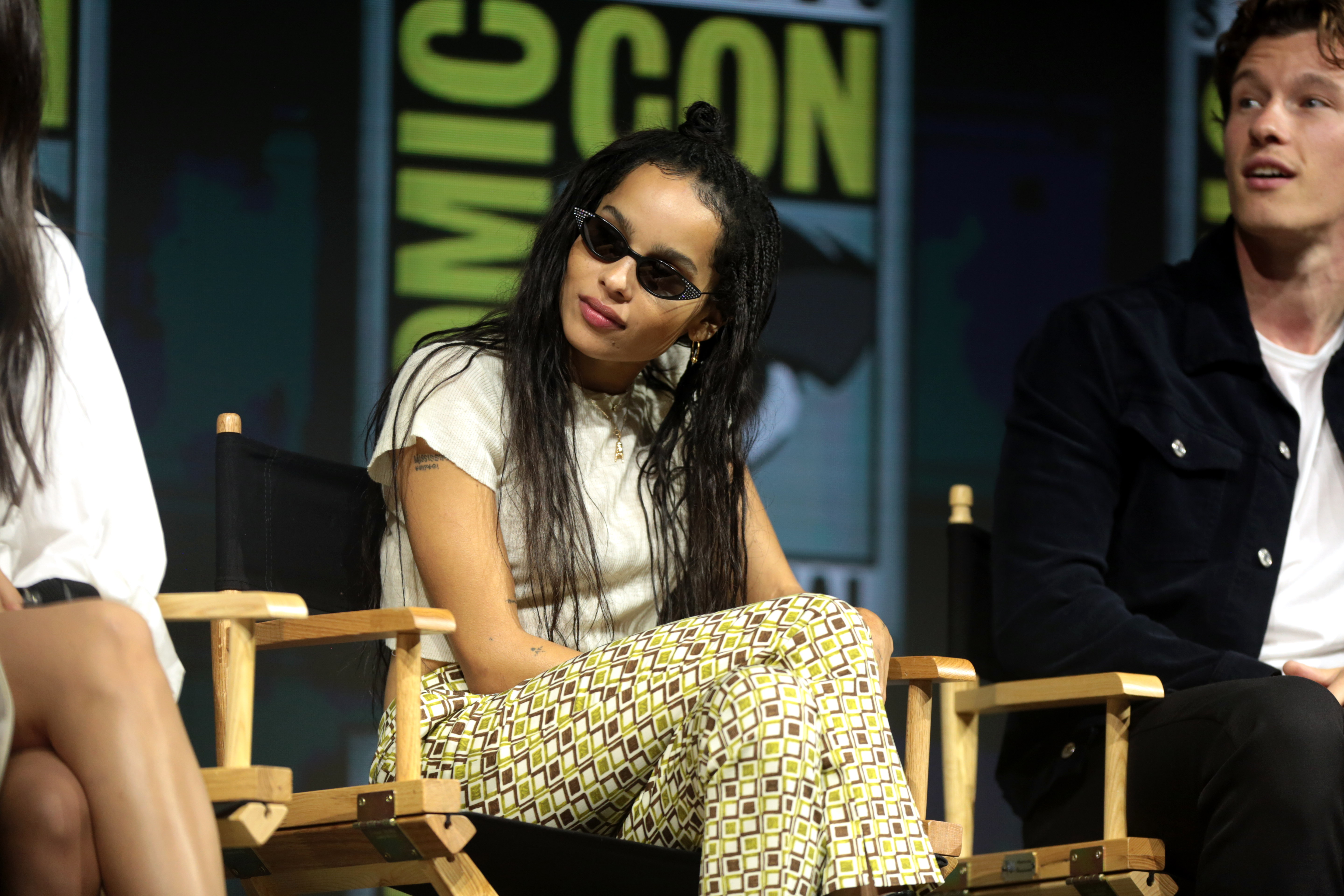 Zoë Kravitz speaking at the 2018 San Diego Comic Con International, for "Fantastic Beasts: The Crimes of Grindelwald", at the San Diego Convention Center in San Diego, California.